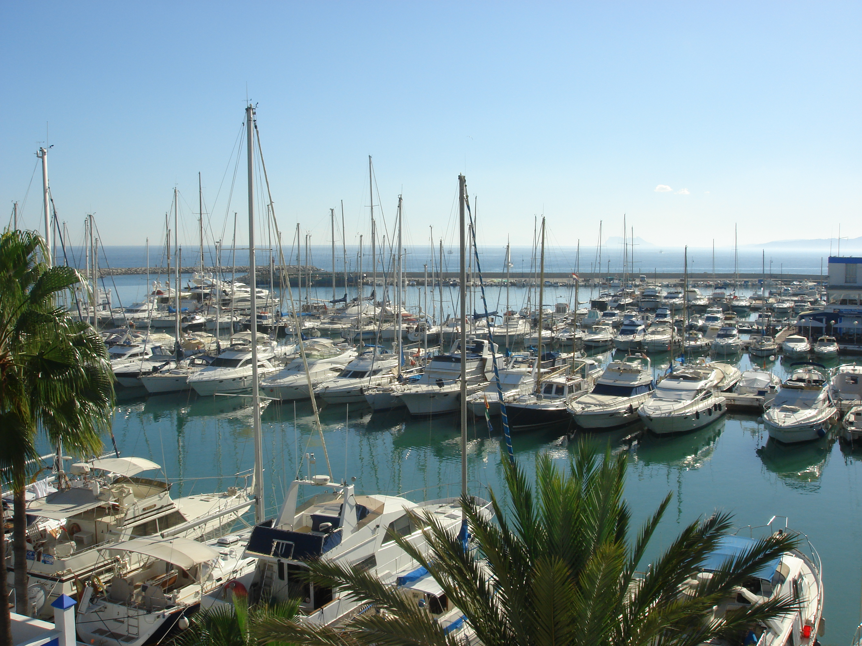 Puerto de Estepona, Málaga, Spain